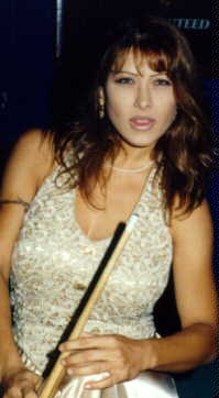 Tera Heart